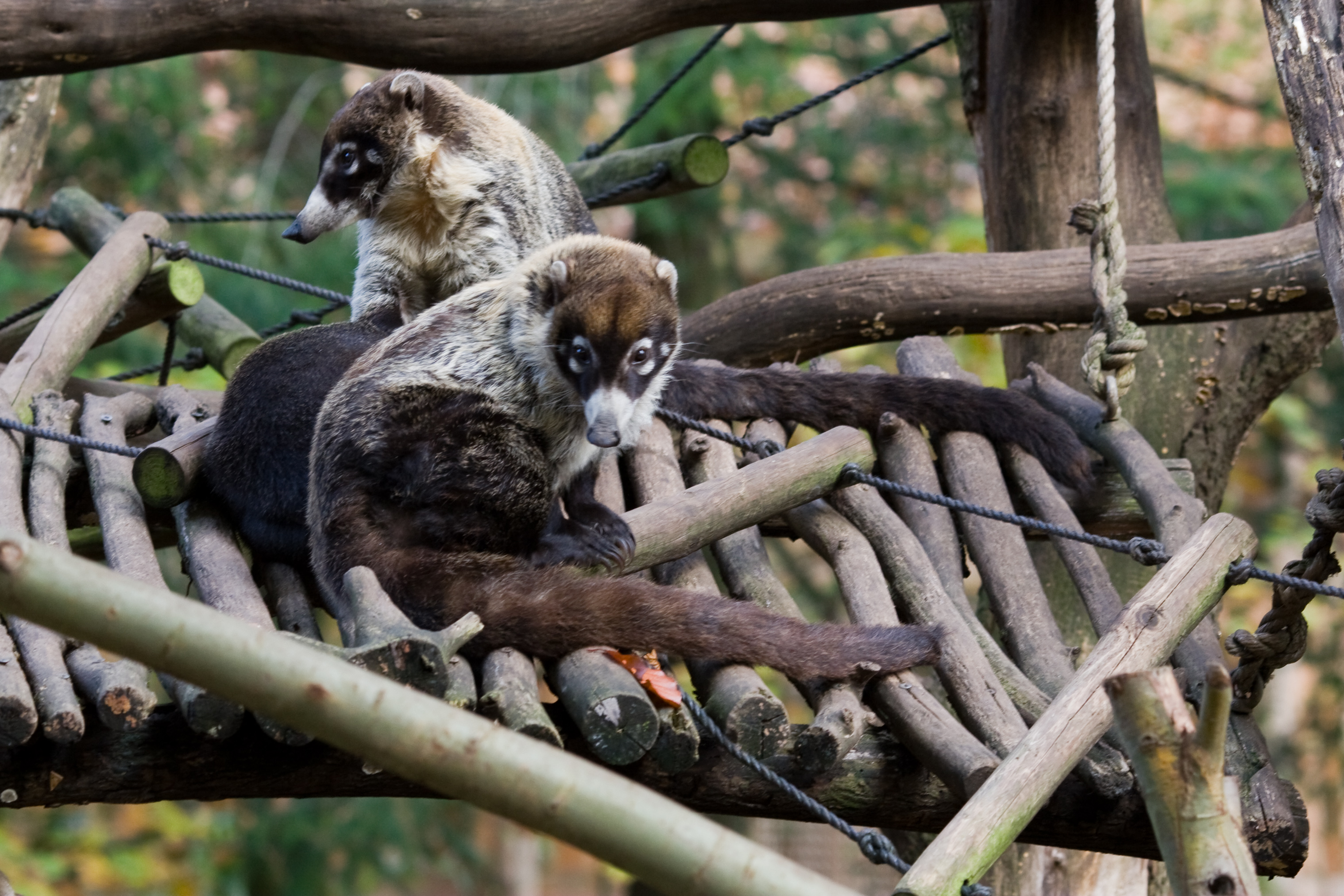 White-nosed Coati (Nasua narica) at zoo in Netherlands